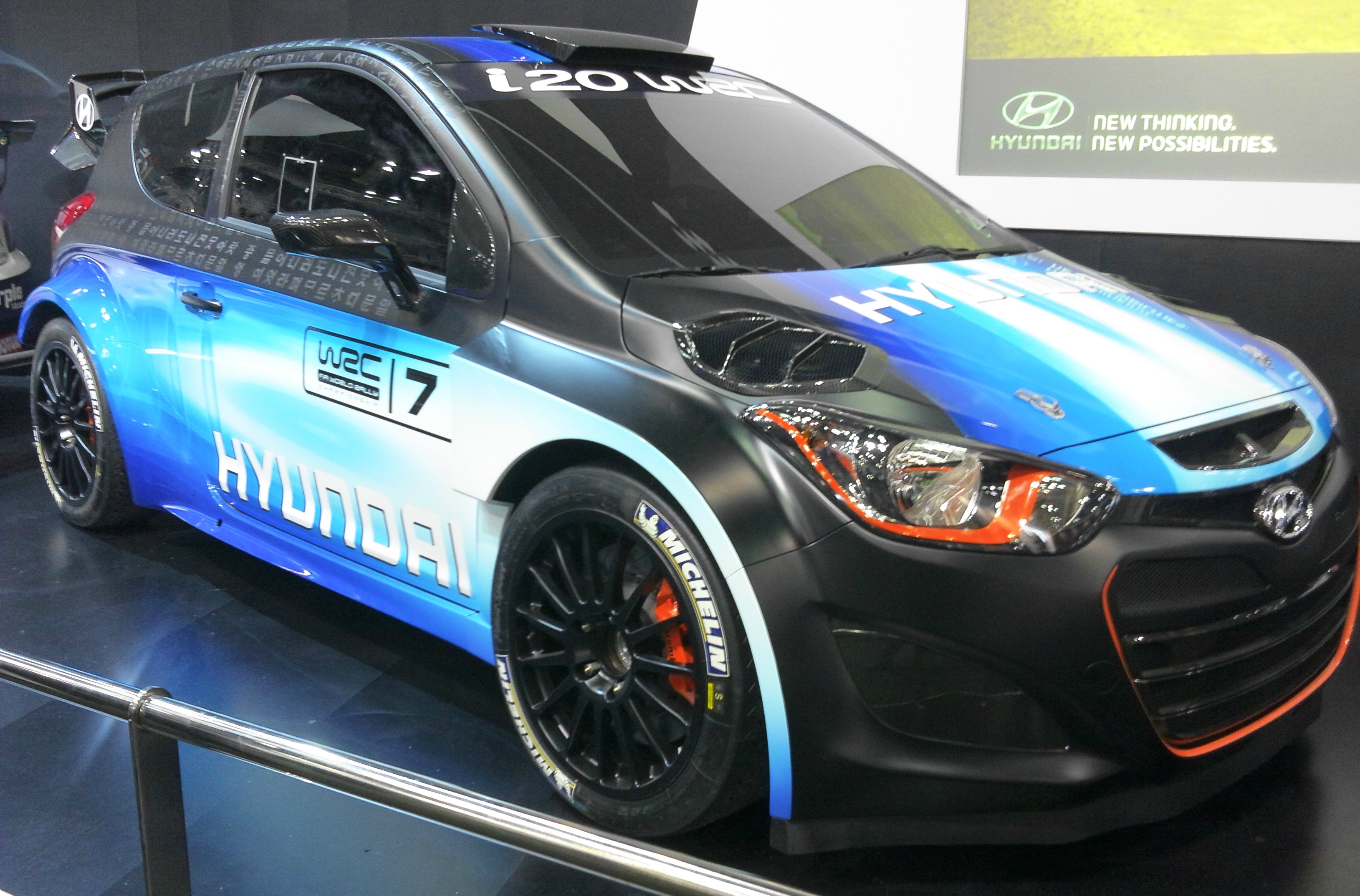 Front-right side of Hyundai i20 WRC.